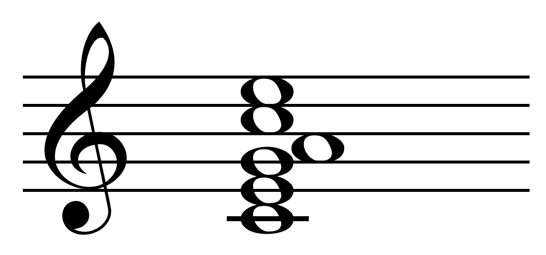 Texas or C6 tuning.